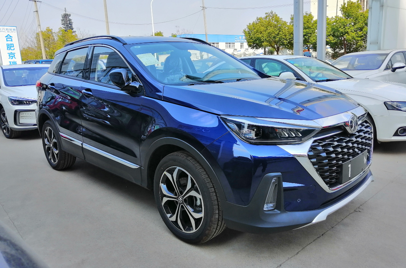 Senova Zhixing photographed in Hefei, Anhui province, China.